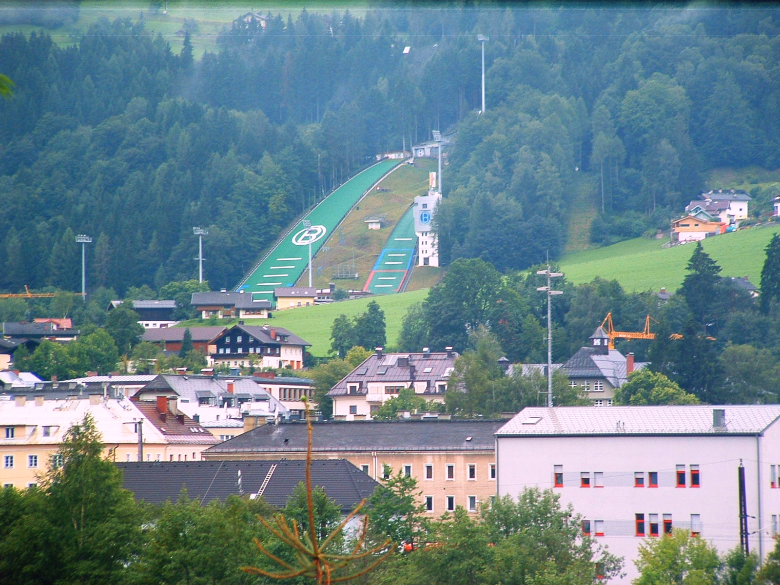 Bischofshofen from east Photograph by Gakuro 2006